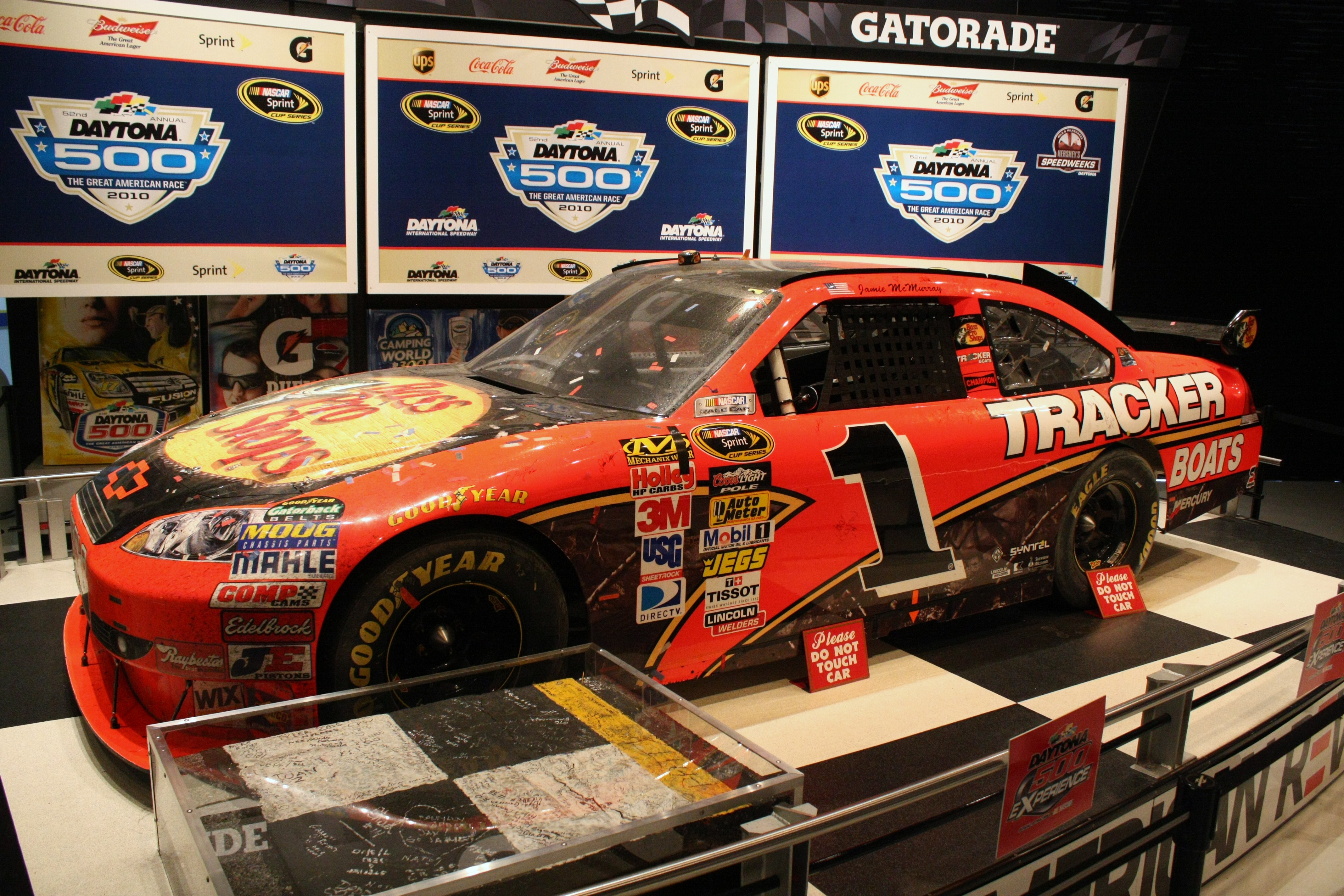 Jamie McMurray's 2010 Daytona 500 race-winning car is shown on display at the Daytona 500 Experience.